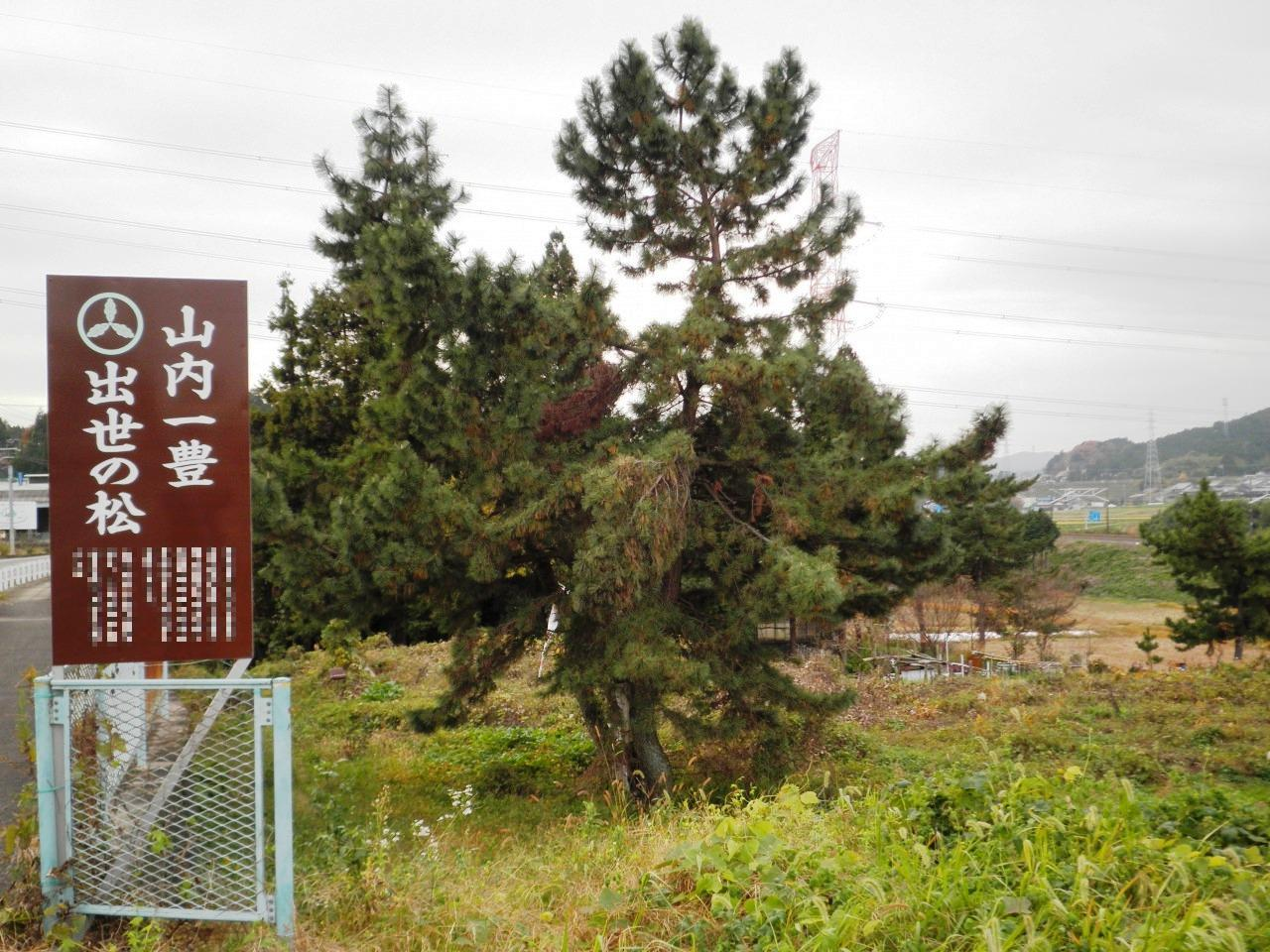 Site of Yamauchi Katsutoyo's position in the Battle of Sekigahara.